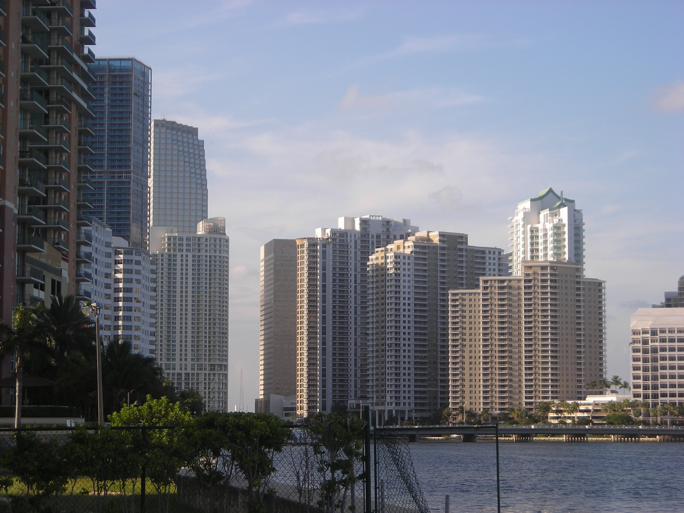 Brickell Bay, Miami